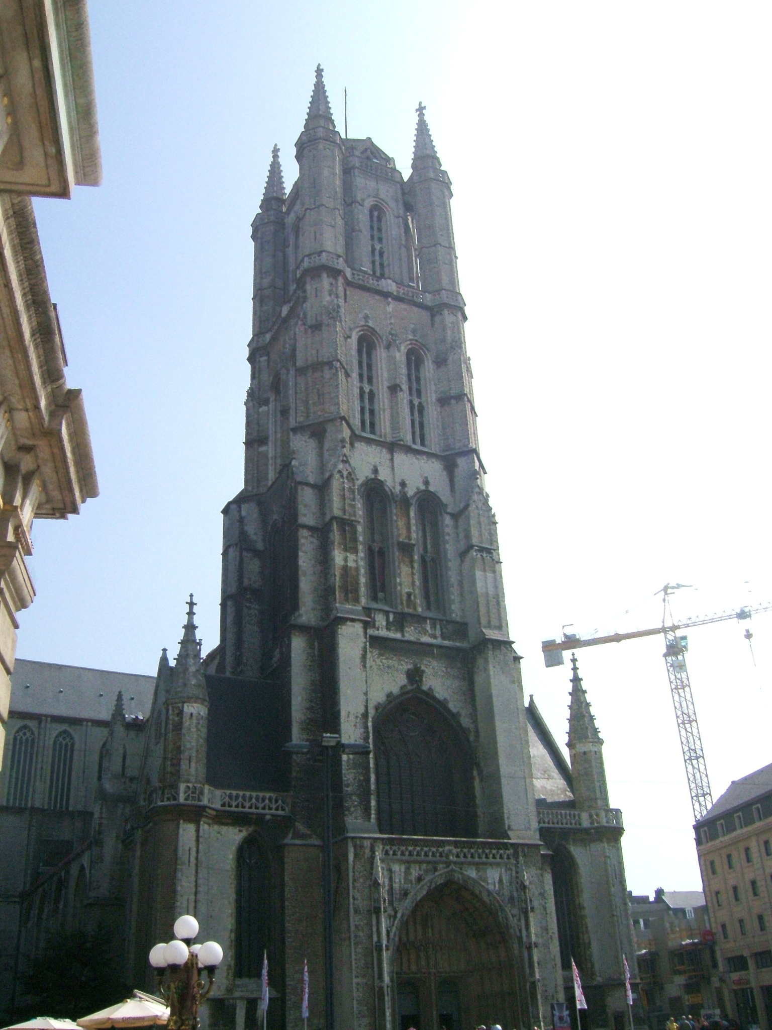 The Tower of the St. Baafs Cathedral in Gent.